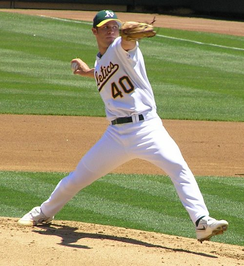 Photo by Justin Lafferty 16:41, 23 August 2006 . . Jlaff . . 500×544 (77 KB)